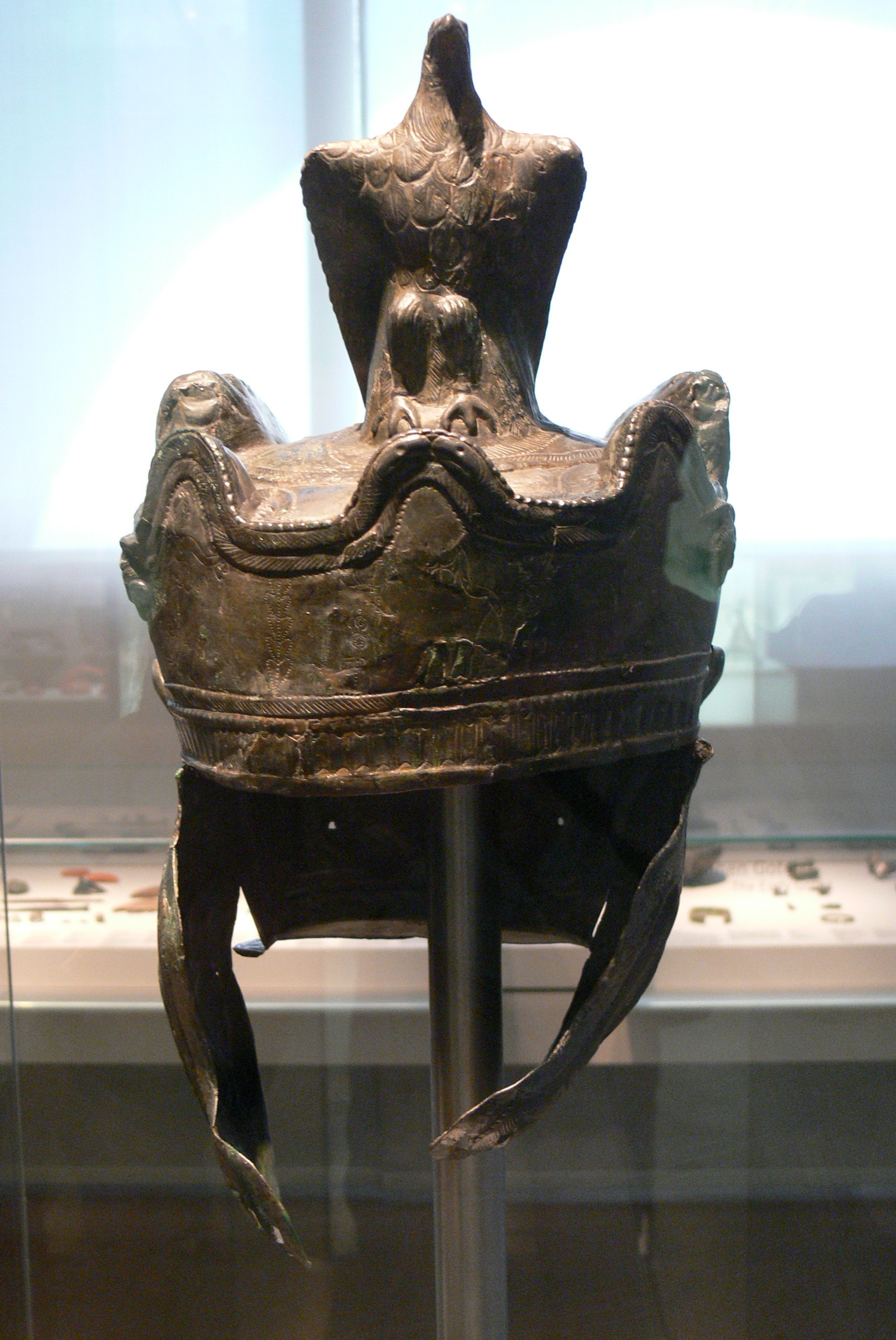 German National Museum ( Nuremberg / Germany ). Ancient Roman parade helmet with tinned surface, 2nd century AD, from Theilenhofen ( Bavaria ). It carries the names of owners and troop units: Turma HETERCLIANA ATTONIS - Turma ATAVLVUANI / Flavi FLAVIANI - ALIQA / NDICOHOTIS / III BRA / CARAUgustanorum / Turma NONI.